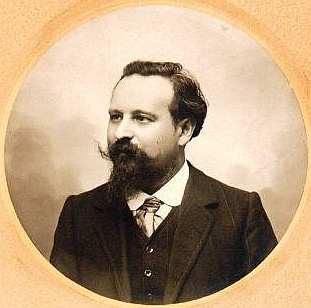 French composer Henri Lutz (1864-1928).